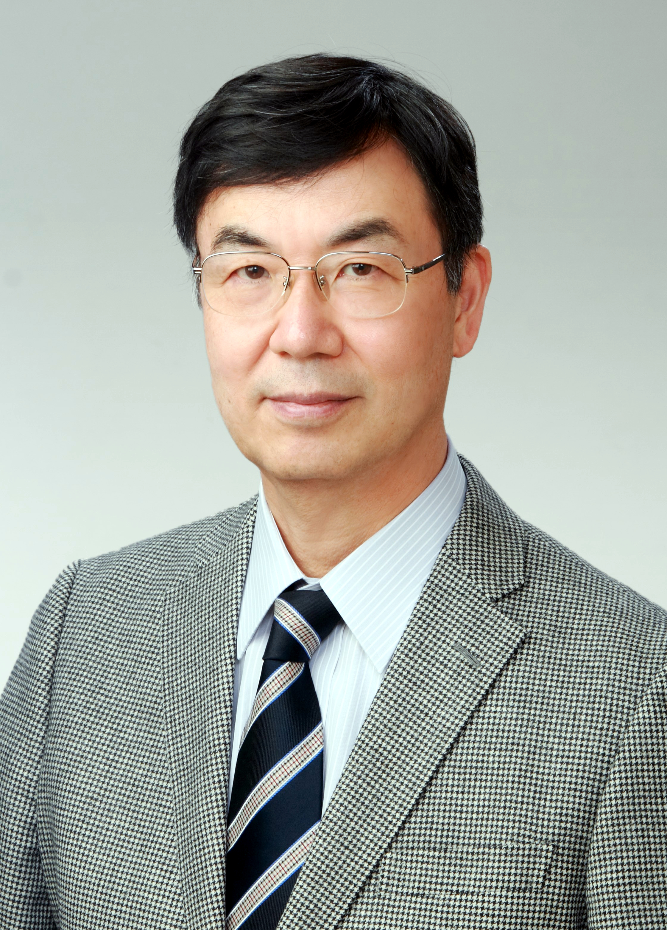 Shimon Sakaguchi, Specially Appointed Professor of the Immunology Frontier Research Center, Osaka University, received the Person of Cultural Merit on November, 2017.